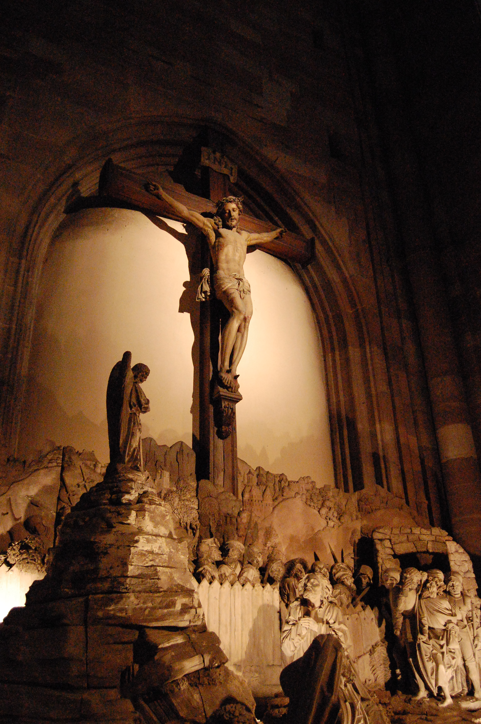 Inside Cathedrale Notre Dame in Strasbourg